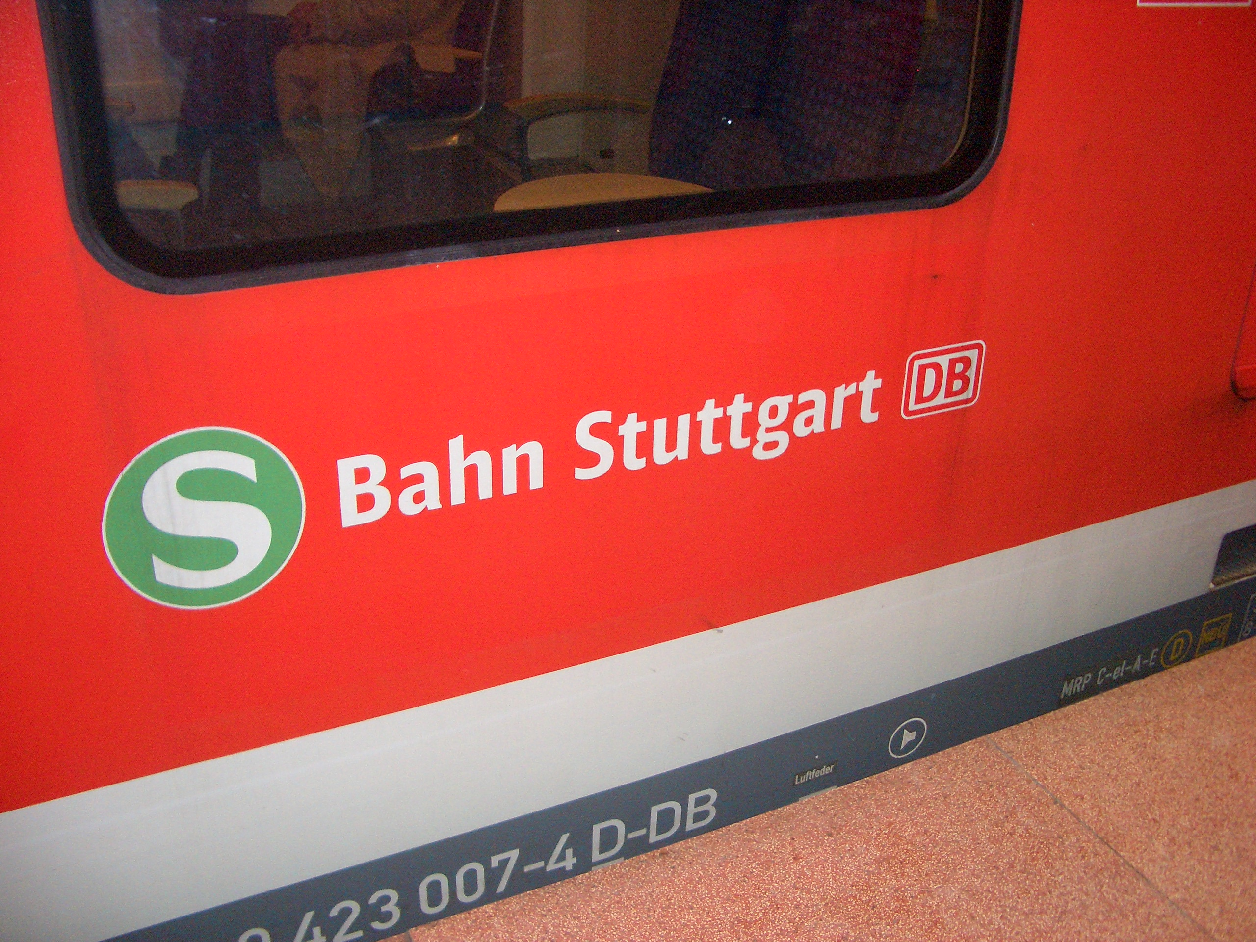 Branding of S-Bahn Stuttgart